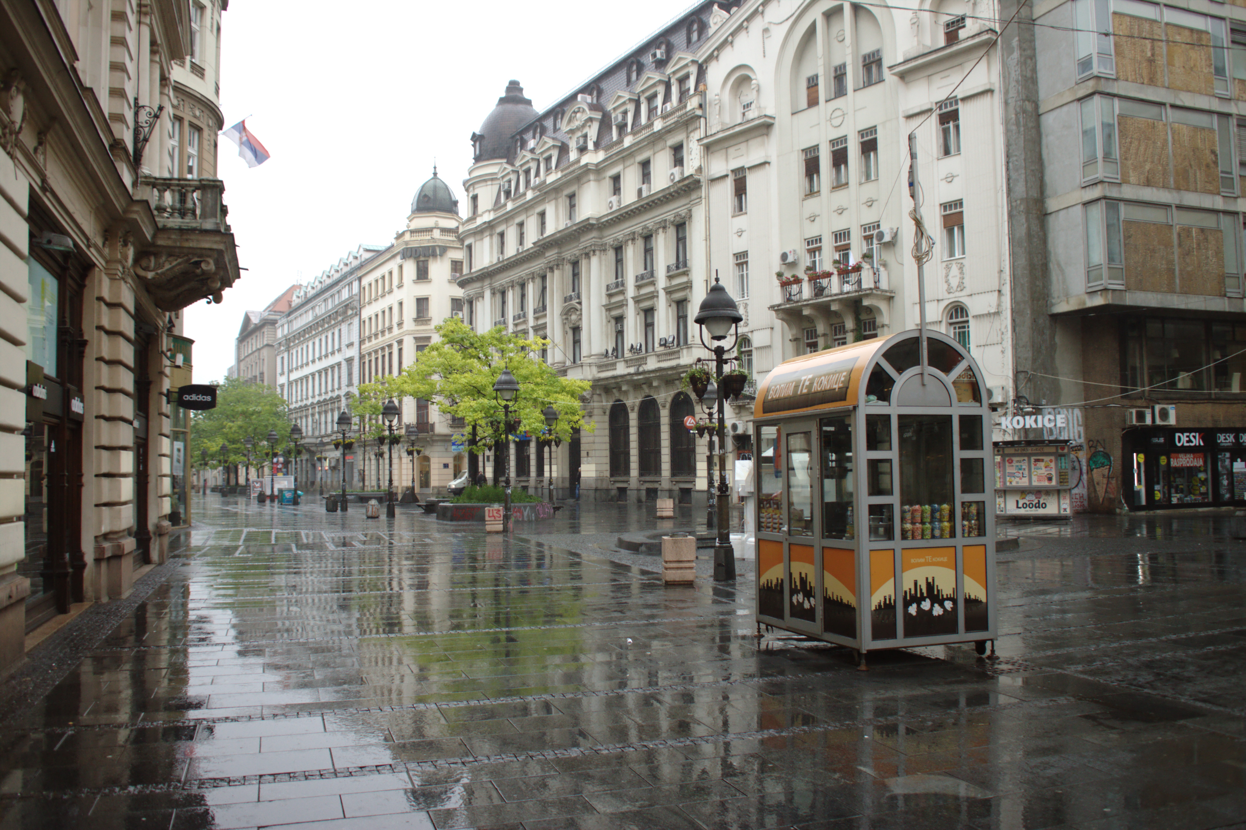 Knez Mihajlova Street in central Belgrade